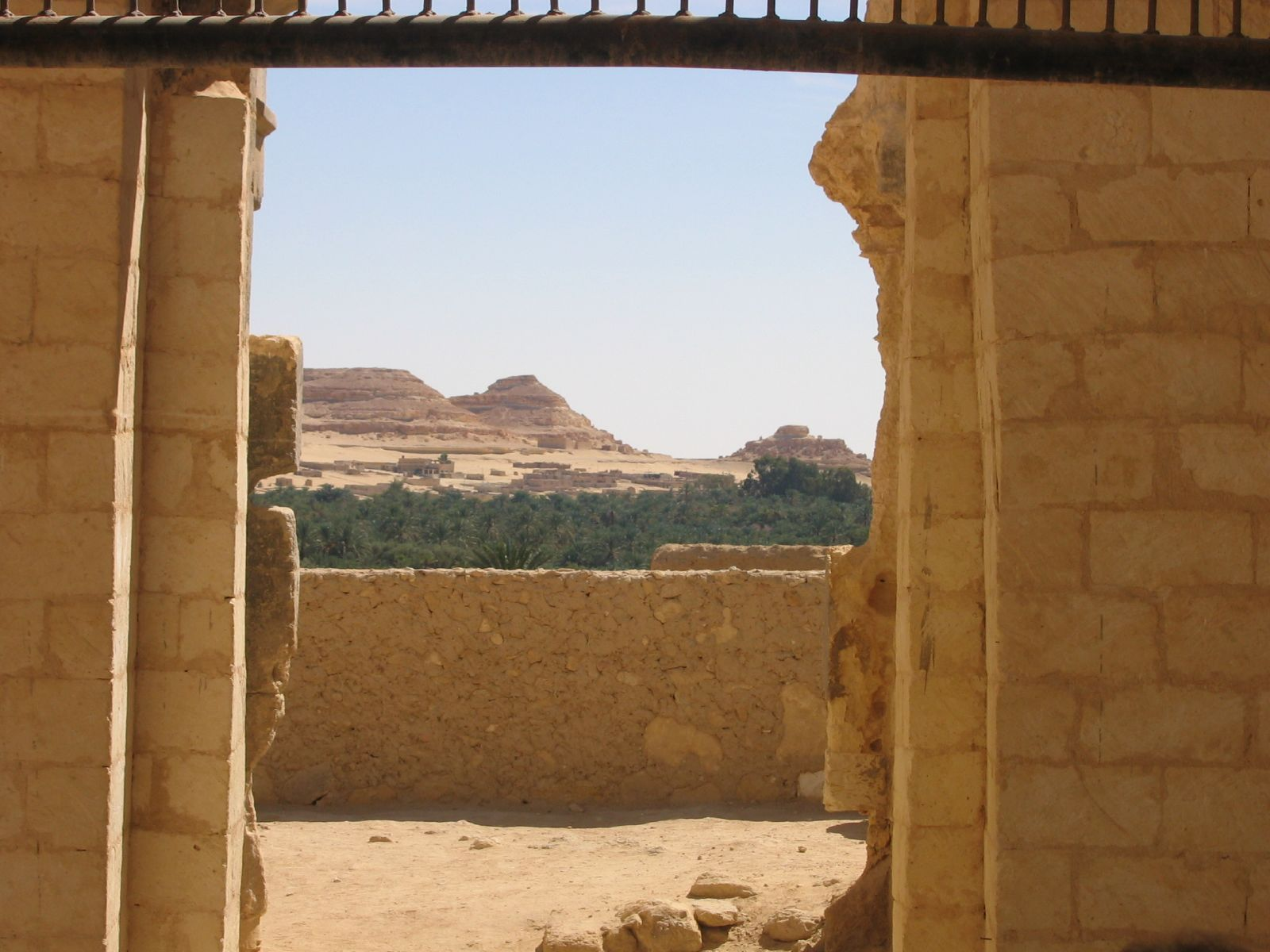 The view from where you would consult the Oracle of Ammun at SiwaIMG_2002